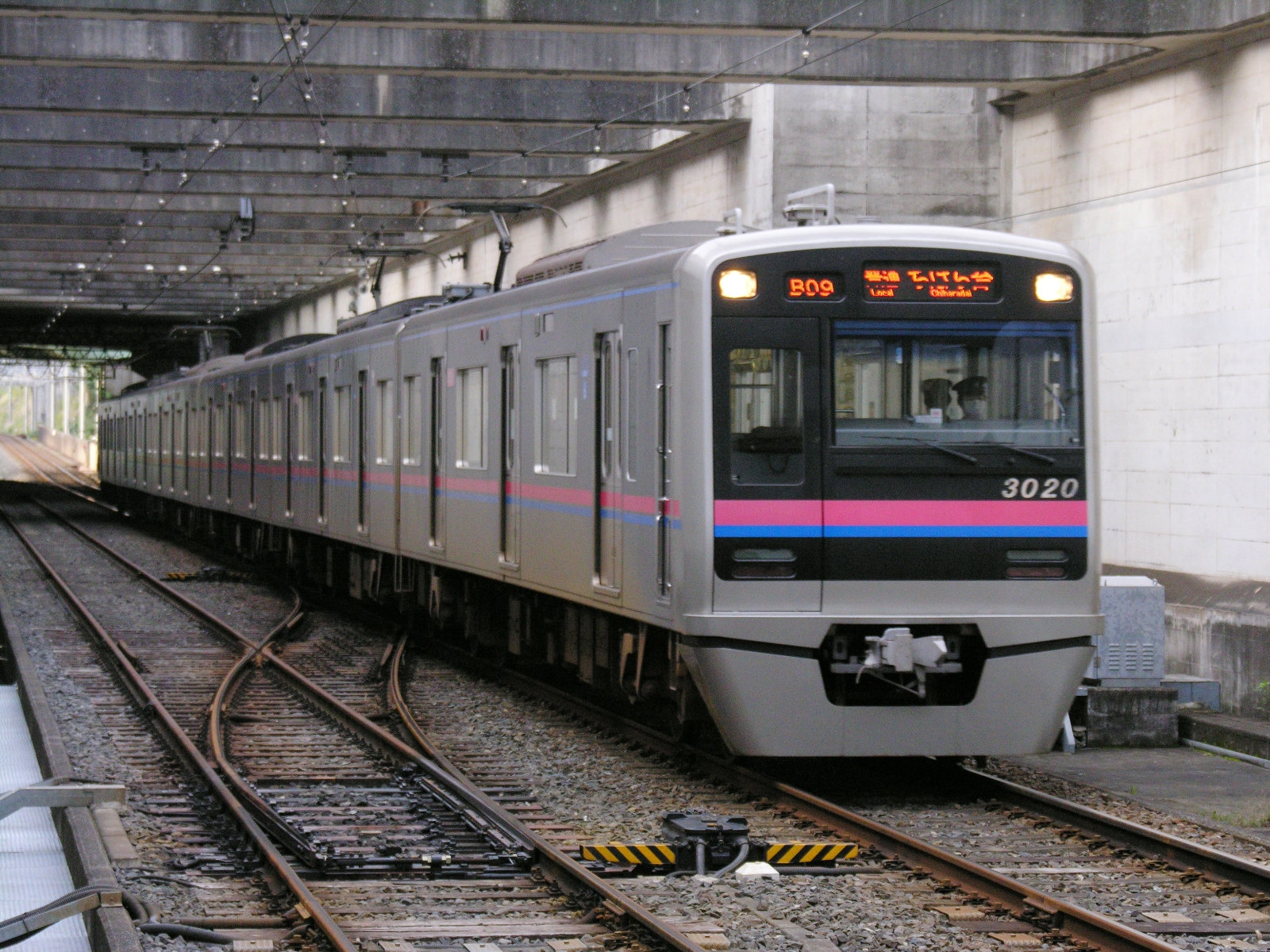 Keisei Series 3000 EC(2nd) arriving at Ohmori-dai station